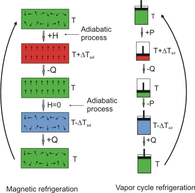 Analogy between magnetic refrigeration and vapor cycle or conventional refrigeration